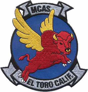 Military badge - for Marine Corps Air Station El Toro, California